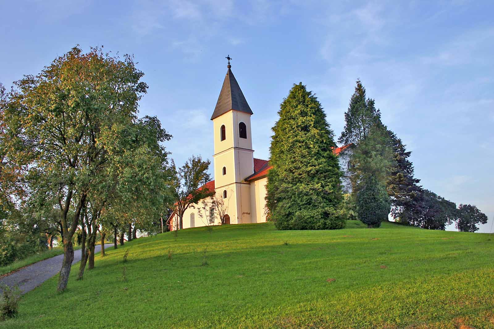 Saints Cosmas and Damian church, Kuzma.